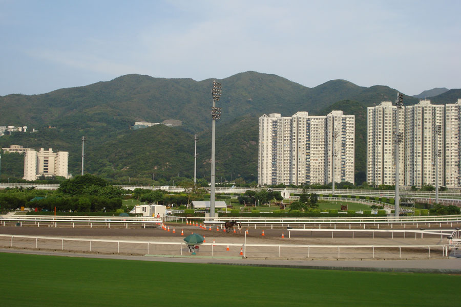 The Hong Kong Olympic Equestrian Venue (Sha Tin)